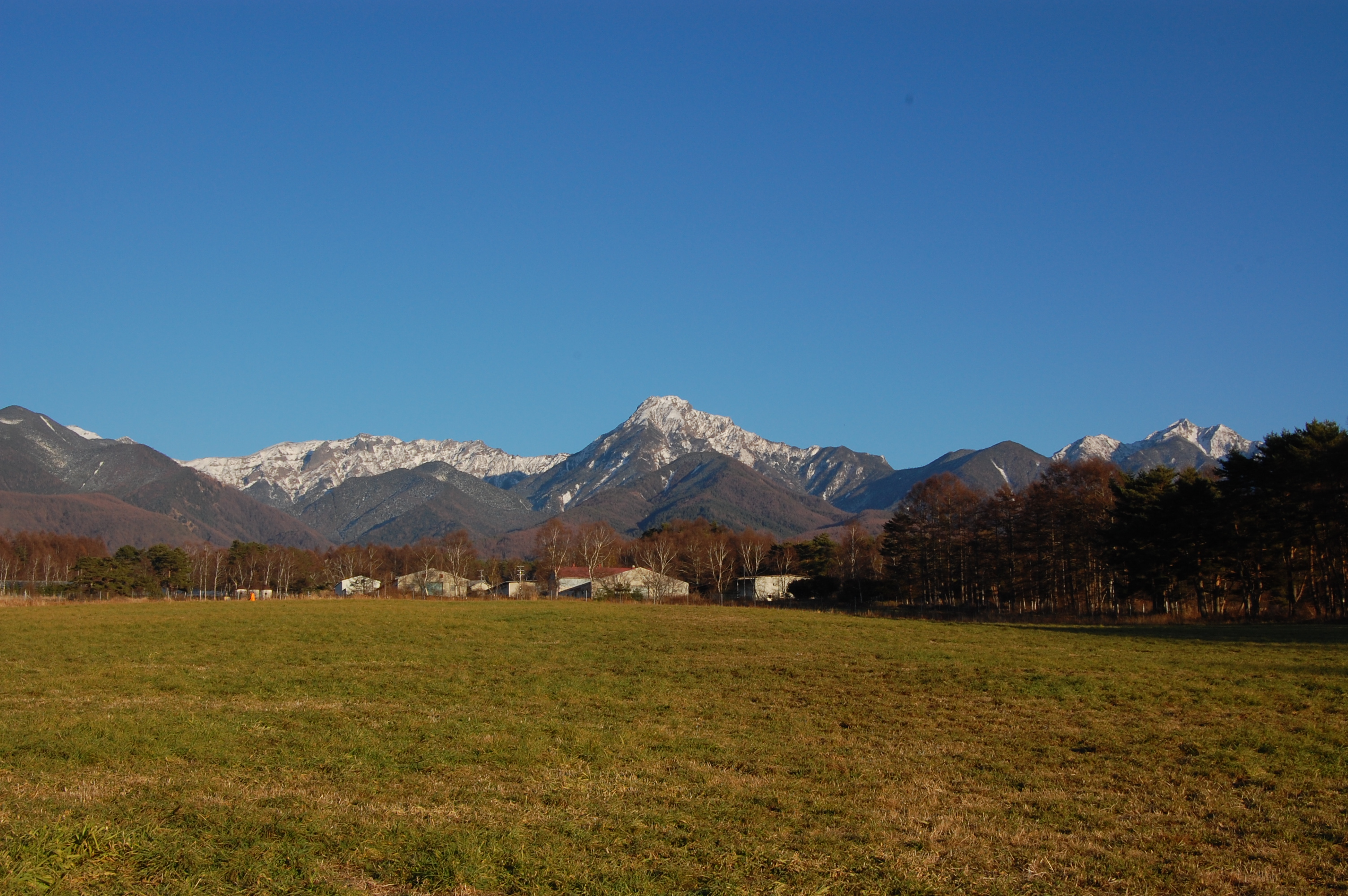 Yatsugatake with snow